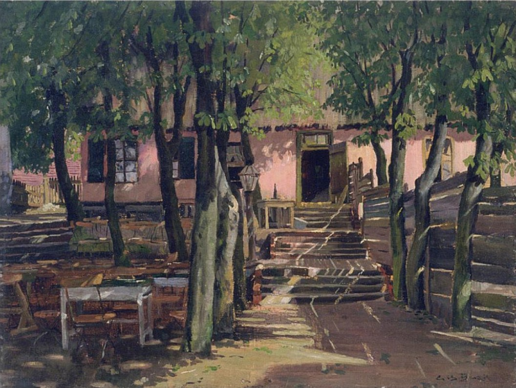 Pink Stucco Façade by George Elbert Burr, oil on canvas, 13 x 17 in. (33 x 43.2 cm), Herbert F. Johnson Museum of Art